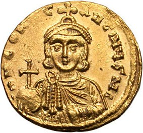 Solidus of Constantine V Copronymus.